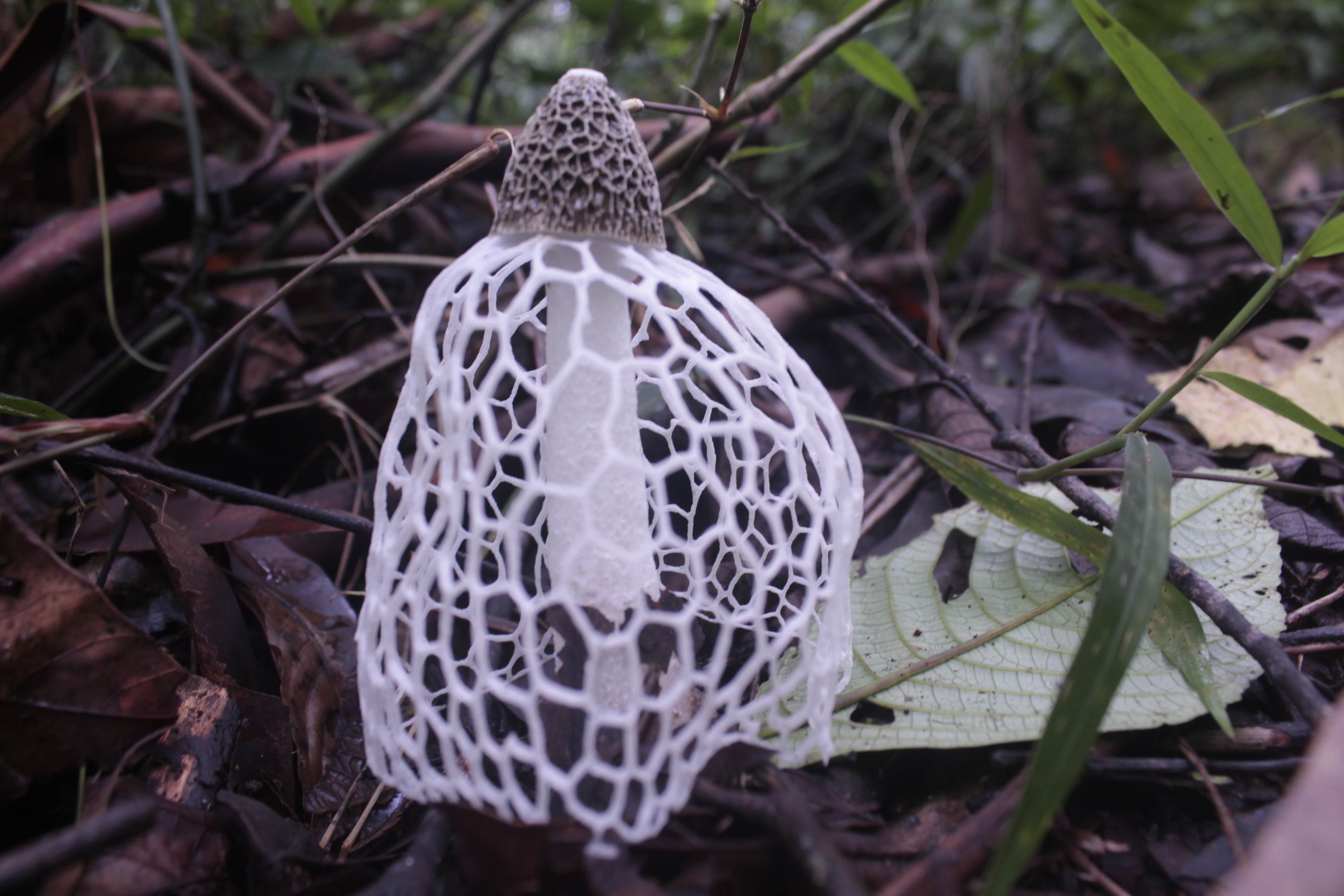 A close shot of the Stinkhorn mushroom growing on the fertile soils of the Mount Cameroon national park